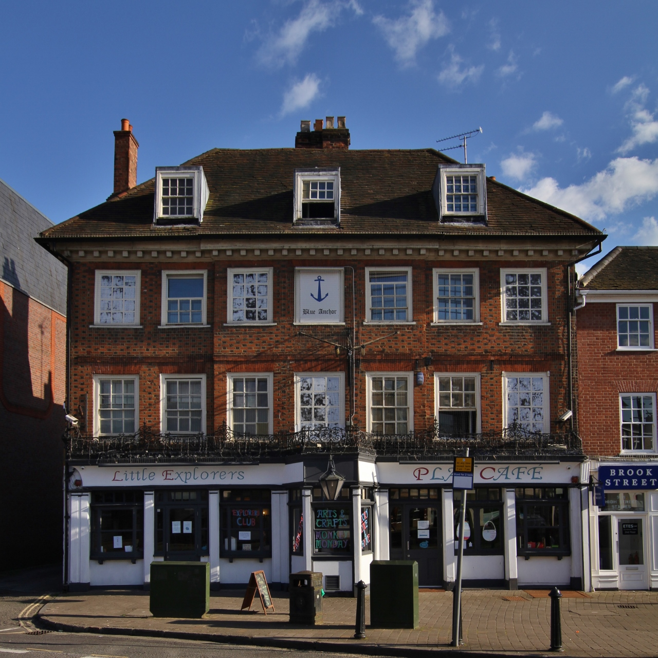 The former Blue Anchor pub, 13–15 Market Square, Staines, Middlesex (now Surrey), seen from the northwest